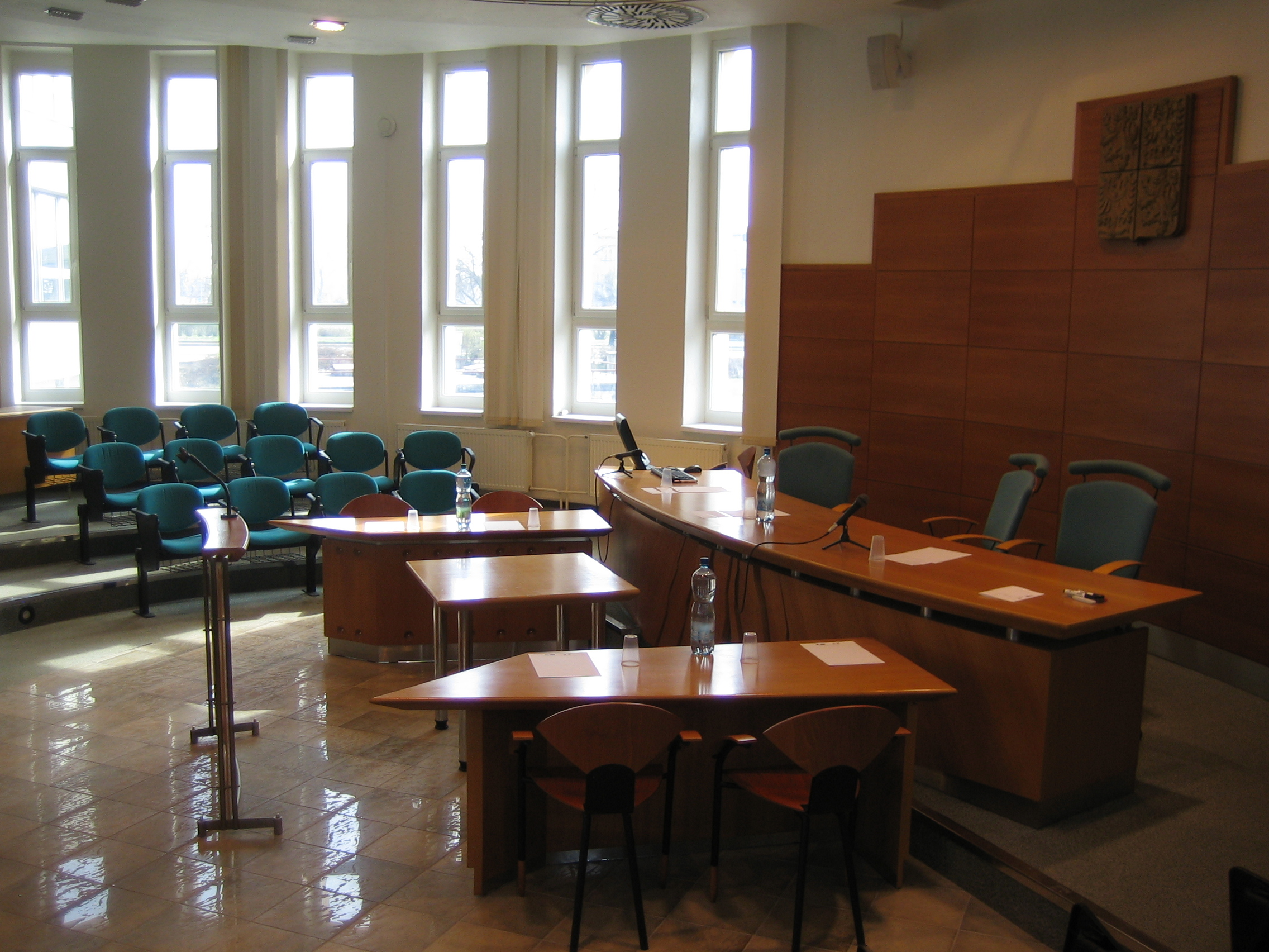 Courtroom of Palacký University of Olomouc Faculty of Law located in "Rotunda", building A